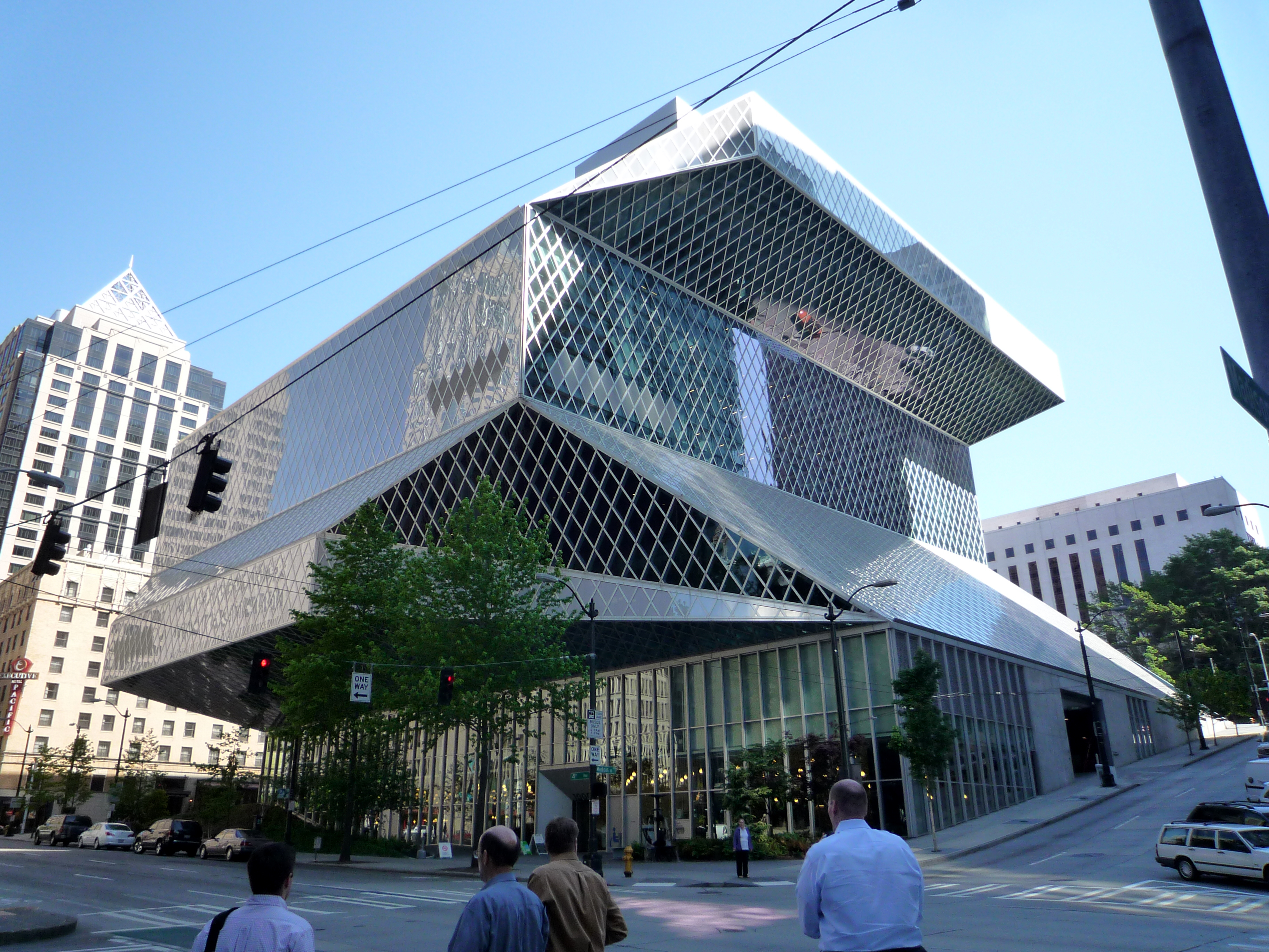 Seattle Central Library, Seattle, Washington, USA.